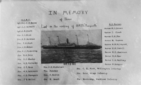 Postcard in memory of those lost in the sinking of HMTS Marquette, in the Mediterranean on 23 October 1915. Image of the ship is surrounded by the names of the New Zealanders lost. Full names of the members of the New Zealand Medical Corps, and the New Zealand nurses from website at Copy negative made by William Archer Price.